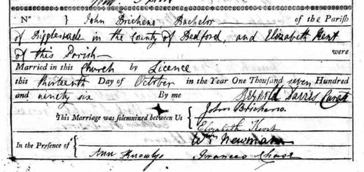 Marriage certificate of John Bricheno and Elizabeth Kent in 1796. He was the owner of Shortmead House, Biggleswade